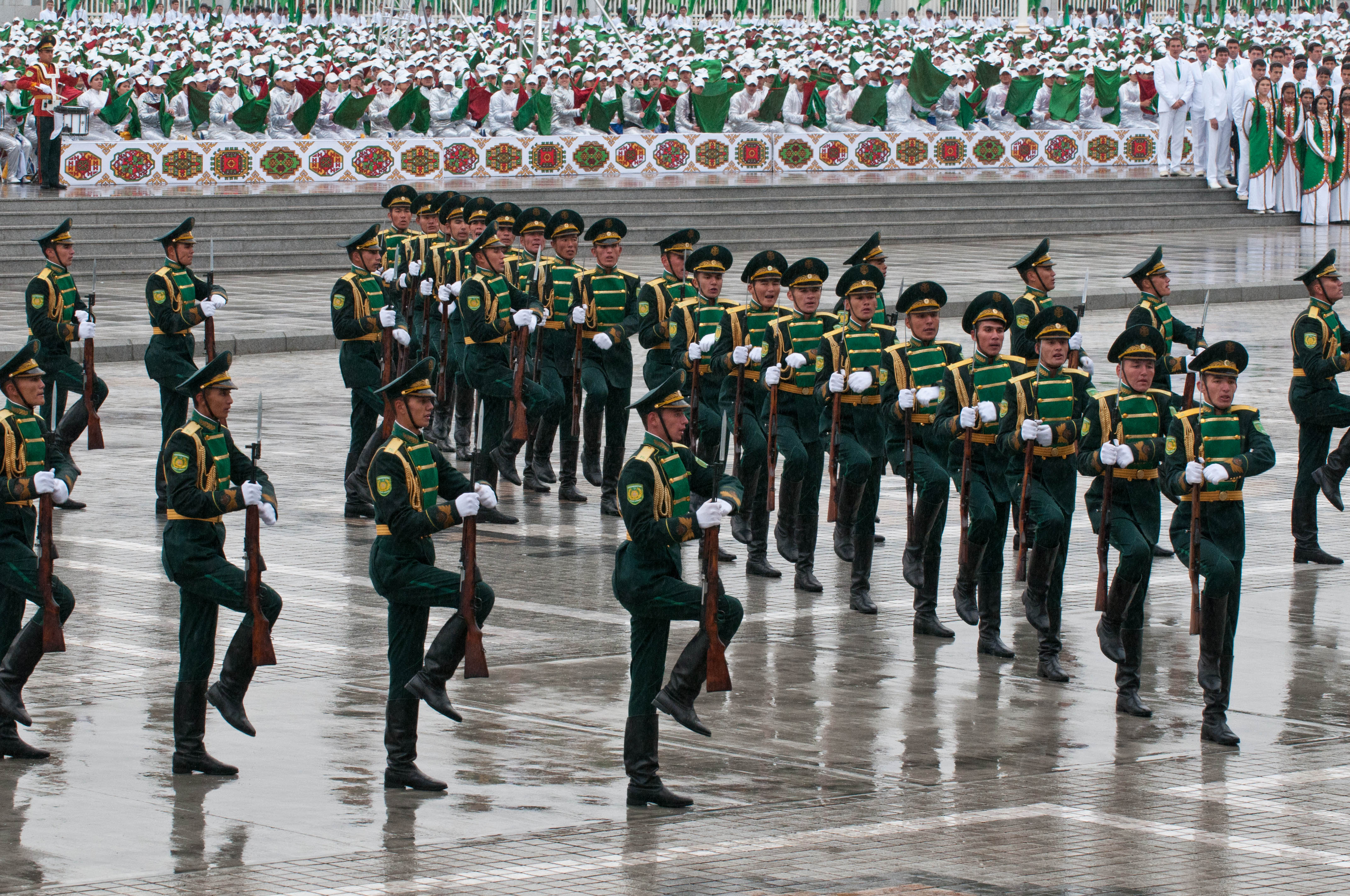 Celebrating the 20th year of independence in Turkmenistan